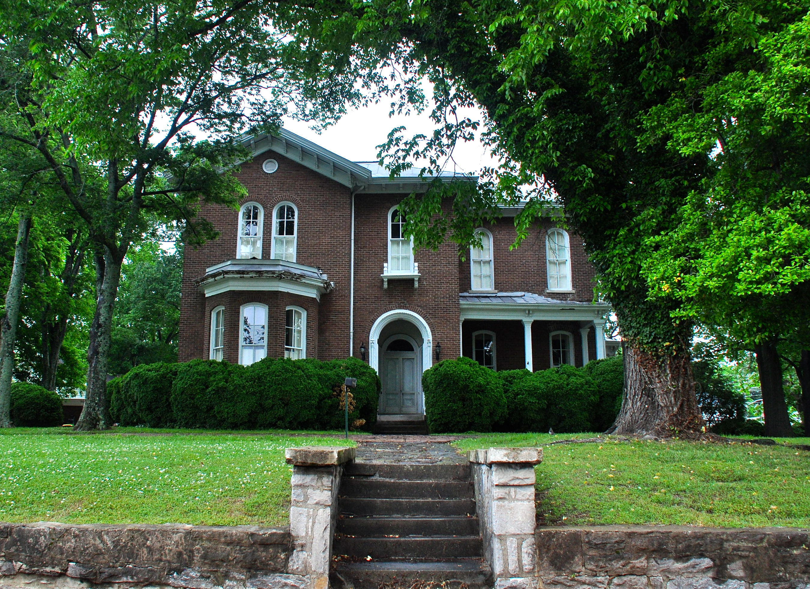 NRHP #94001273. Listed on October 28, 1994. Located at Pulaski, Giles County, Tennessee.